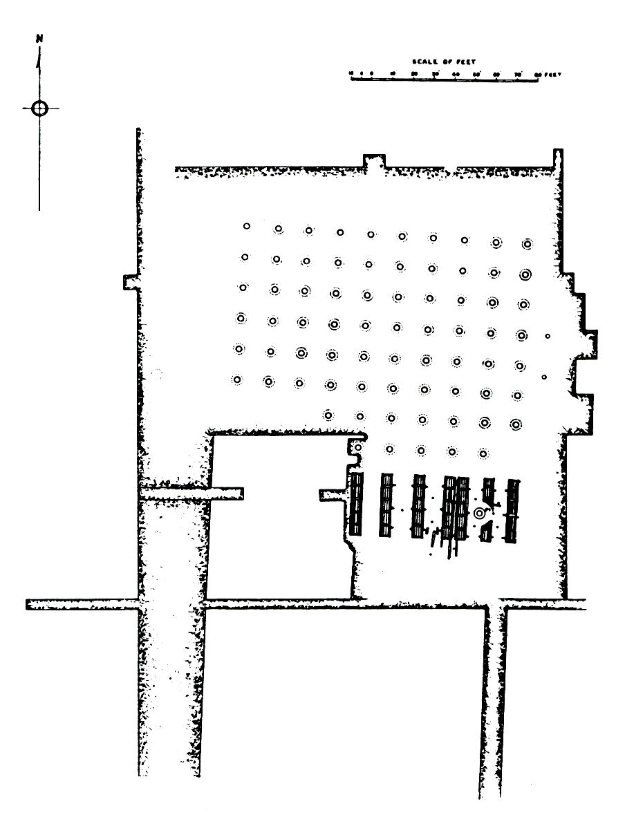 Kumhrar Maurya level ASIEC 1912-1913, vol. 1, pl. 1029